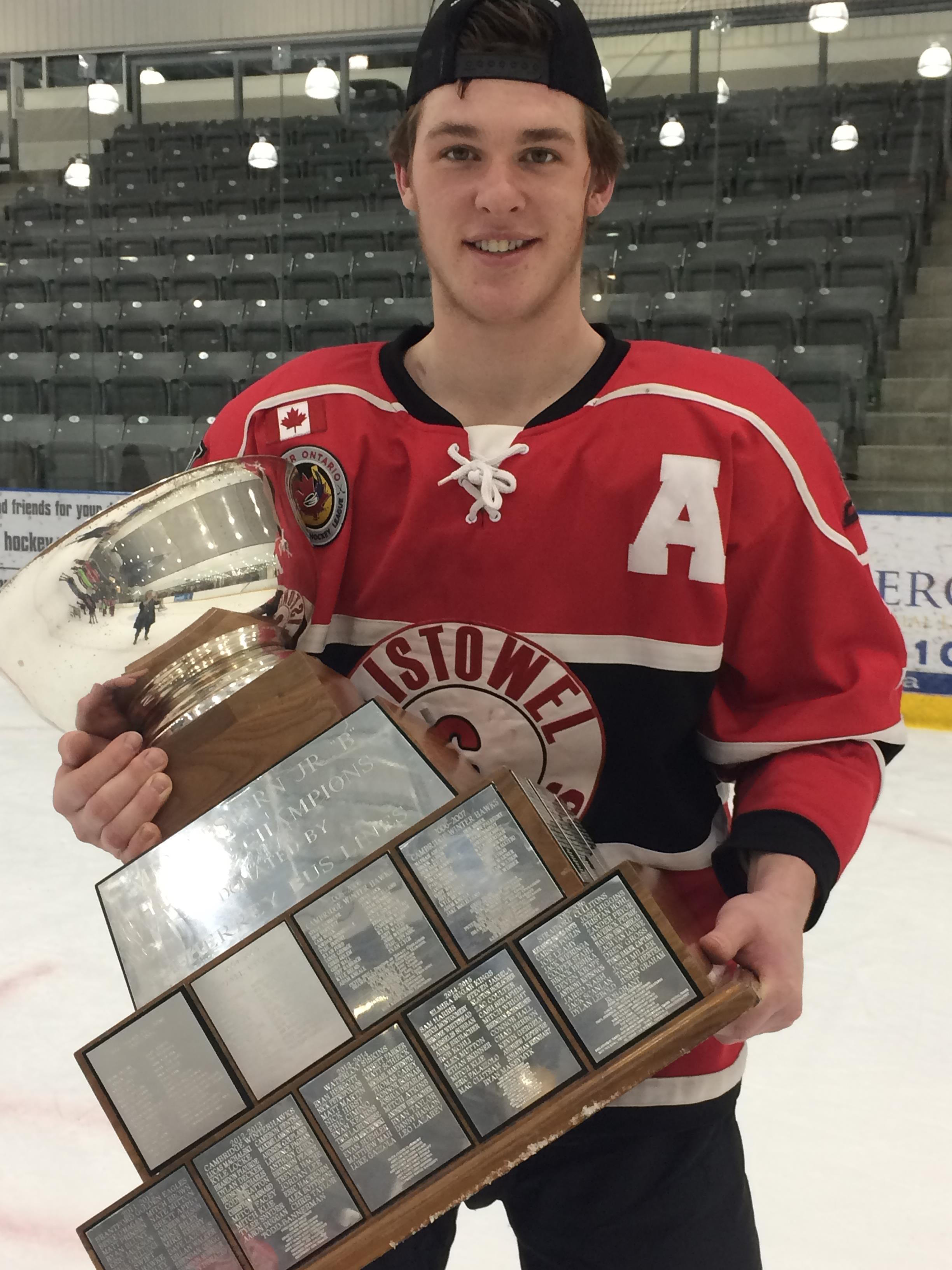 Blake